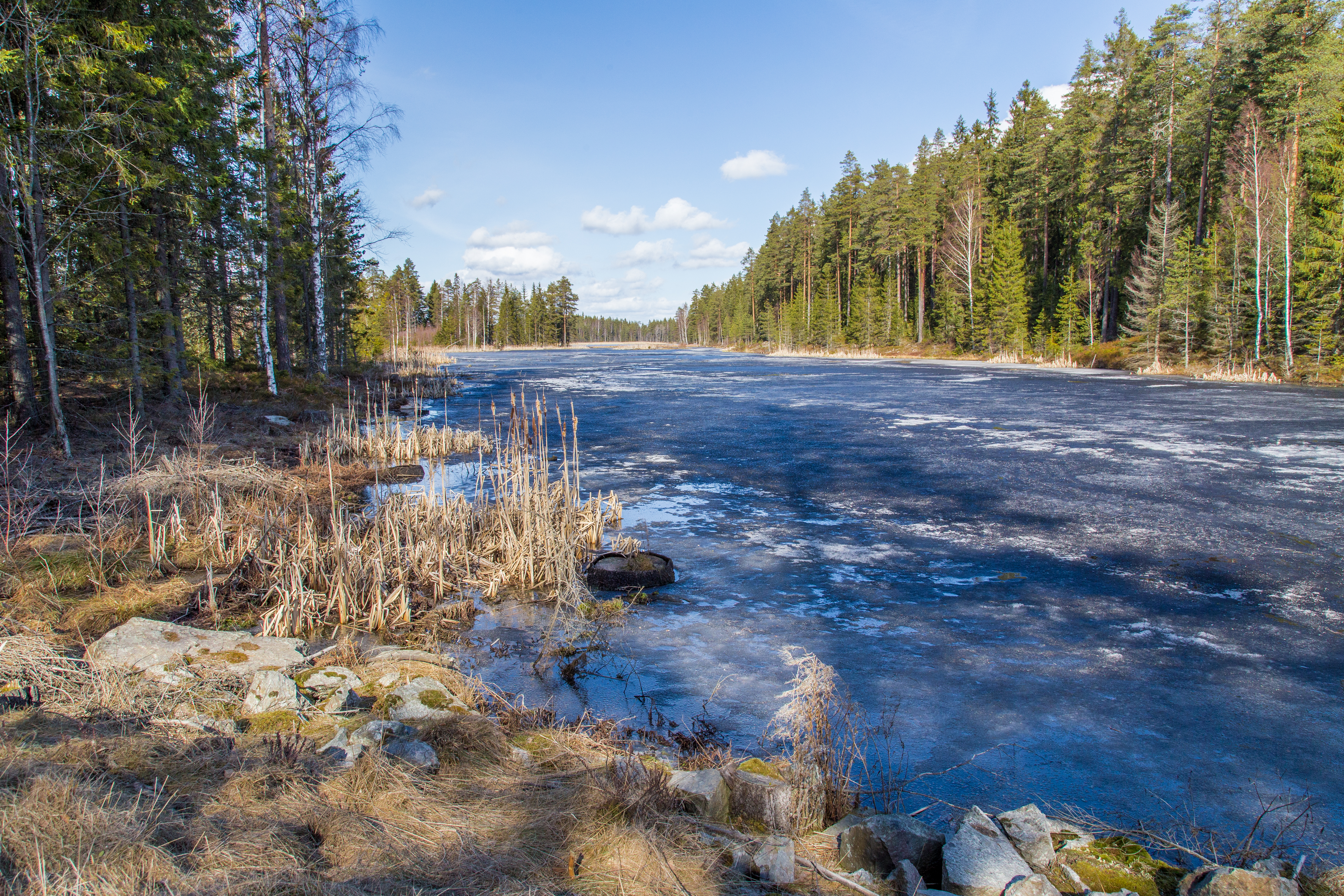 Lake Stora Bredsjön, Garpenberg, Hedemora Municipality, Dalarna, Sweden